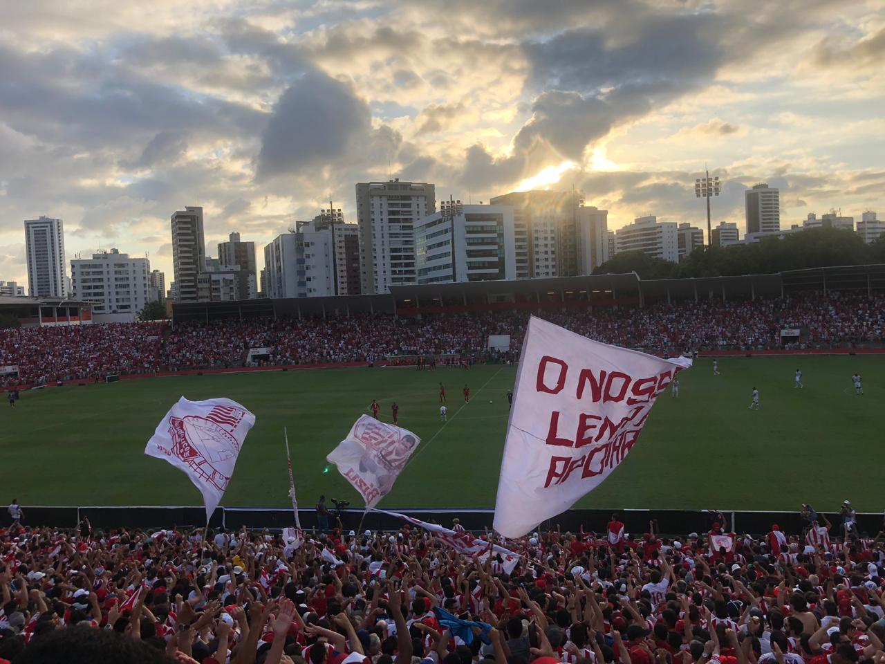 Nautico´s supporters